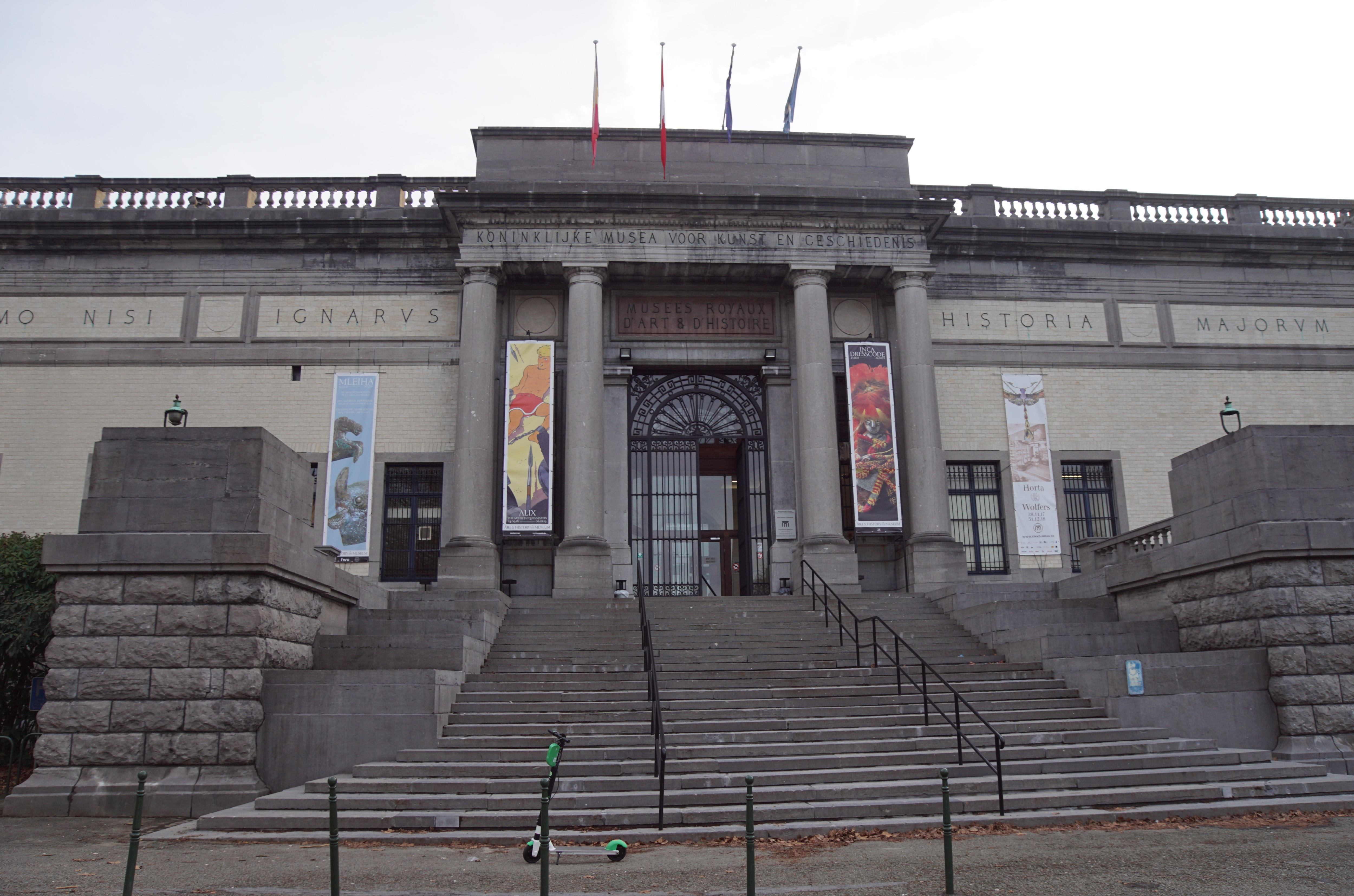 Museum of Art & History, Brussels, Belgium. Entrance.